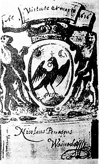 Coat of arms of Wallachia as shown in Nicolae Pătraşcu's CoA